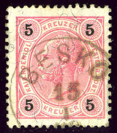 Austrian KK 5 kreuzer stamp issue 1890, cancelled at BESKO, Galicia (Poland) - District Sanok